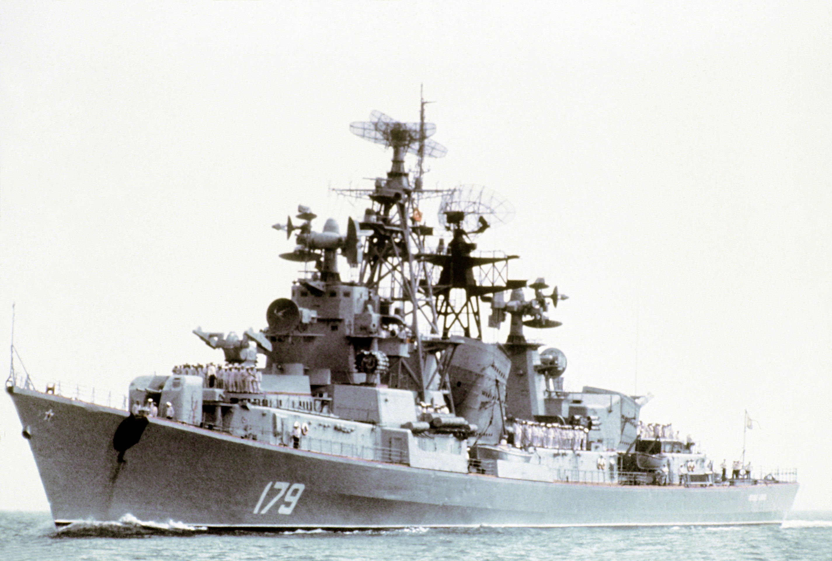 A port bow view of the Soviet Kashin class guided missile destroyer Krasnyy Kavkaz underway.